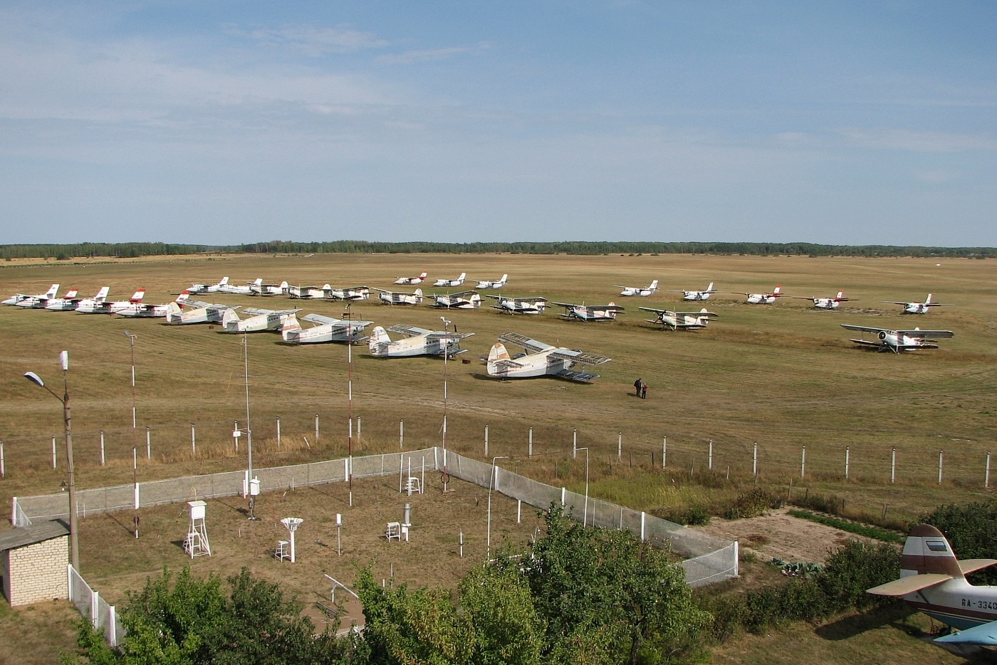 Sasovo Civil Aviation Flight School